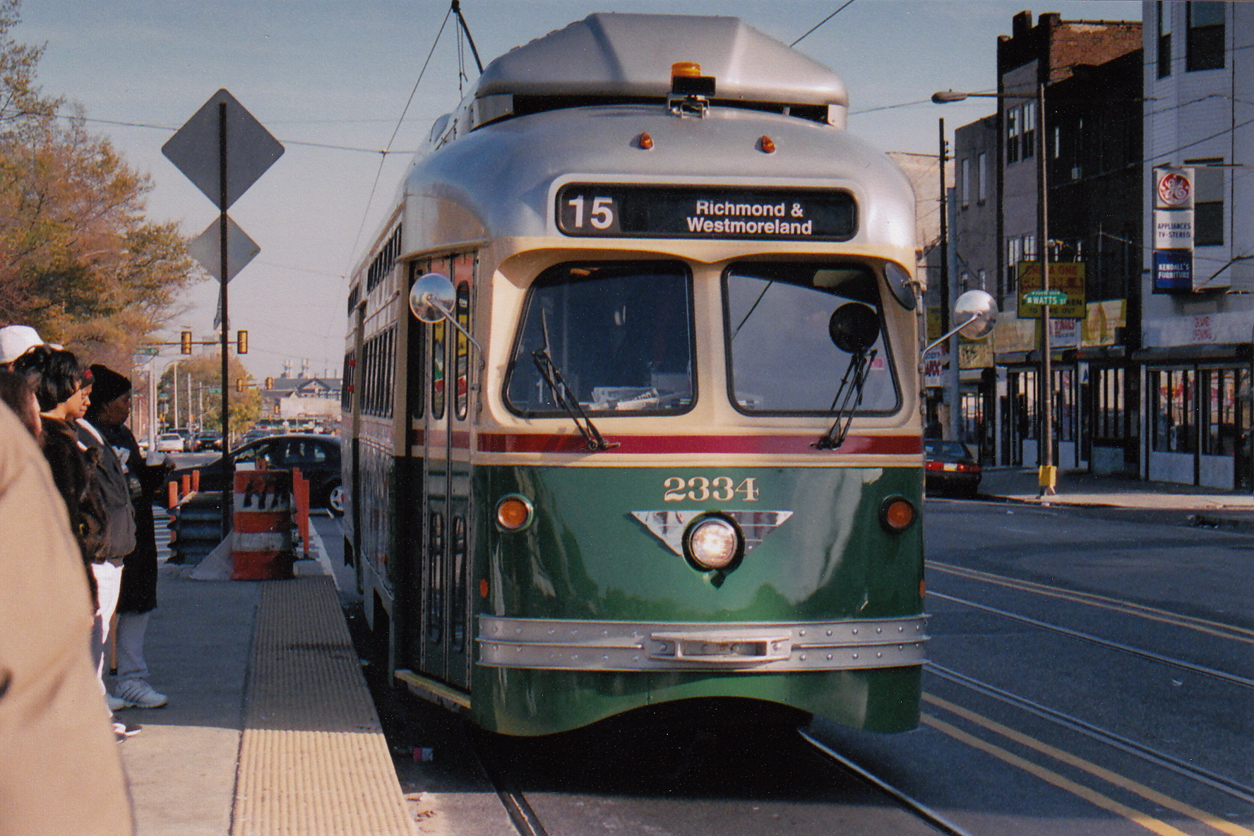 Streetcar in Philadelphia, PA